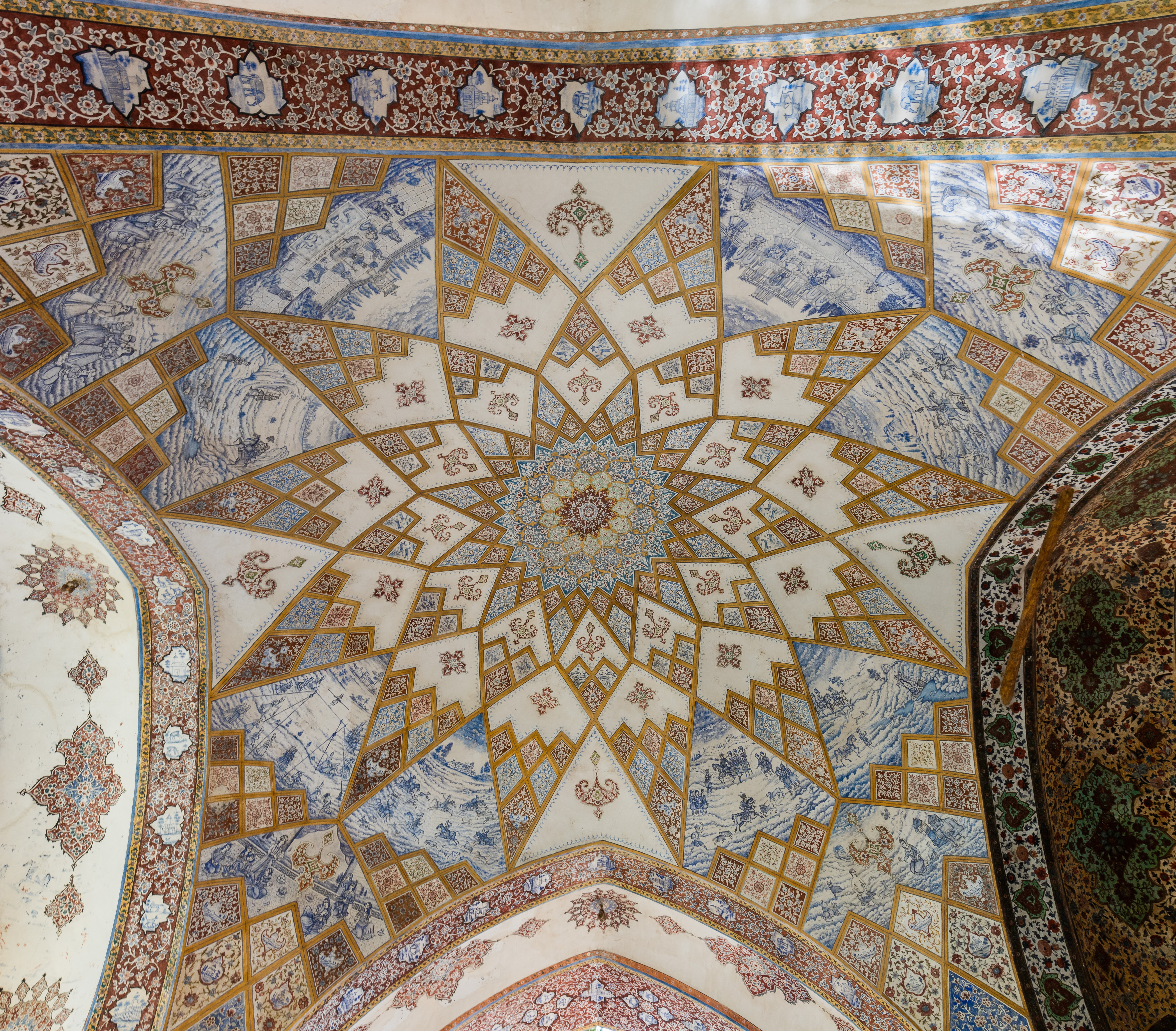 Fin Garden, Kashan, Iran